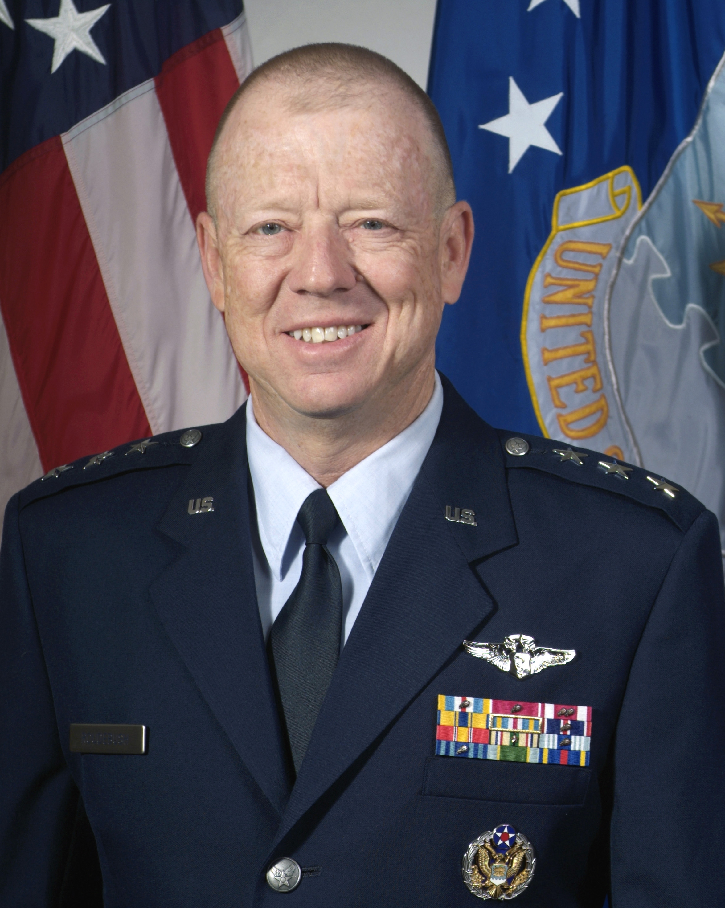 James G. Roudebush from [1]